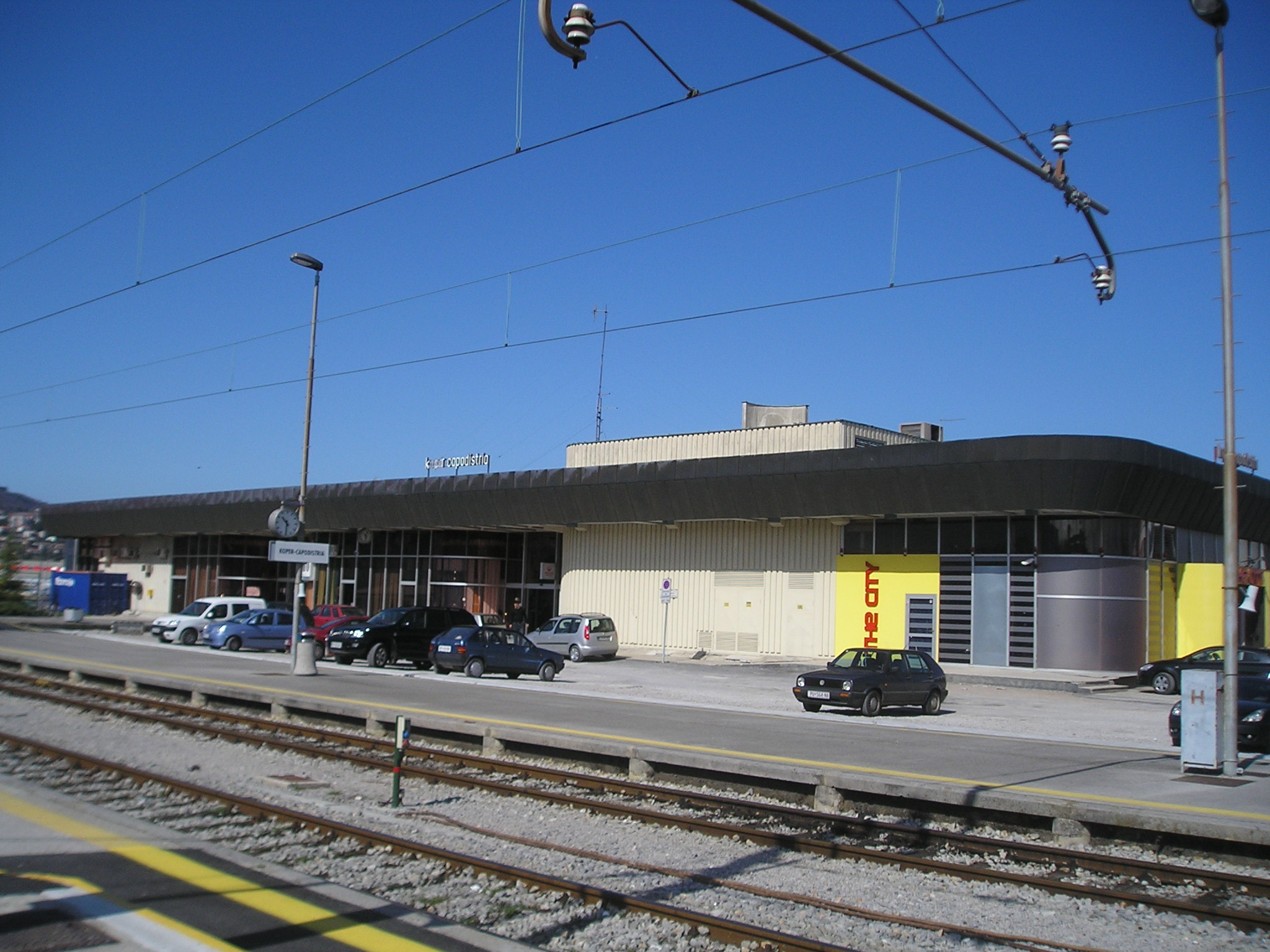 Passenger train station in Koper, Slovenia, view from a platform